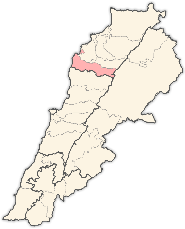 Map of districts in Lebanon, highlighting the Batroun District